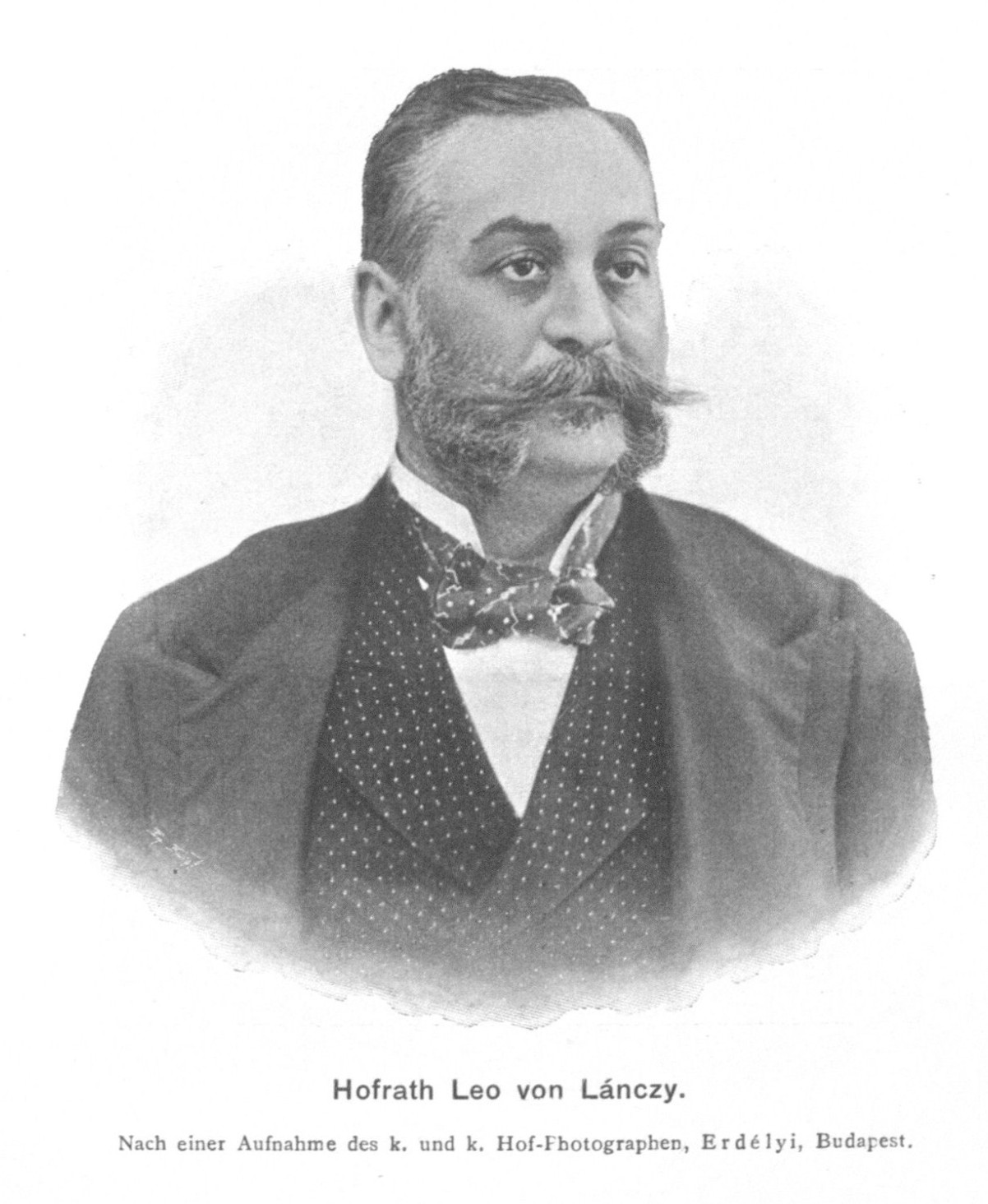 Portrait of Leó Lánczy (1852-1921), Hungarian banker and politician.